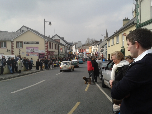 Main road in Carrick-on-shannon at St.Patrick's Day